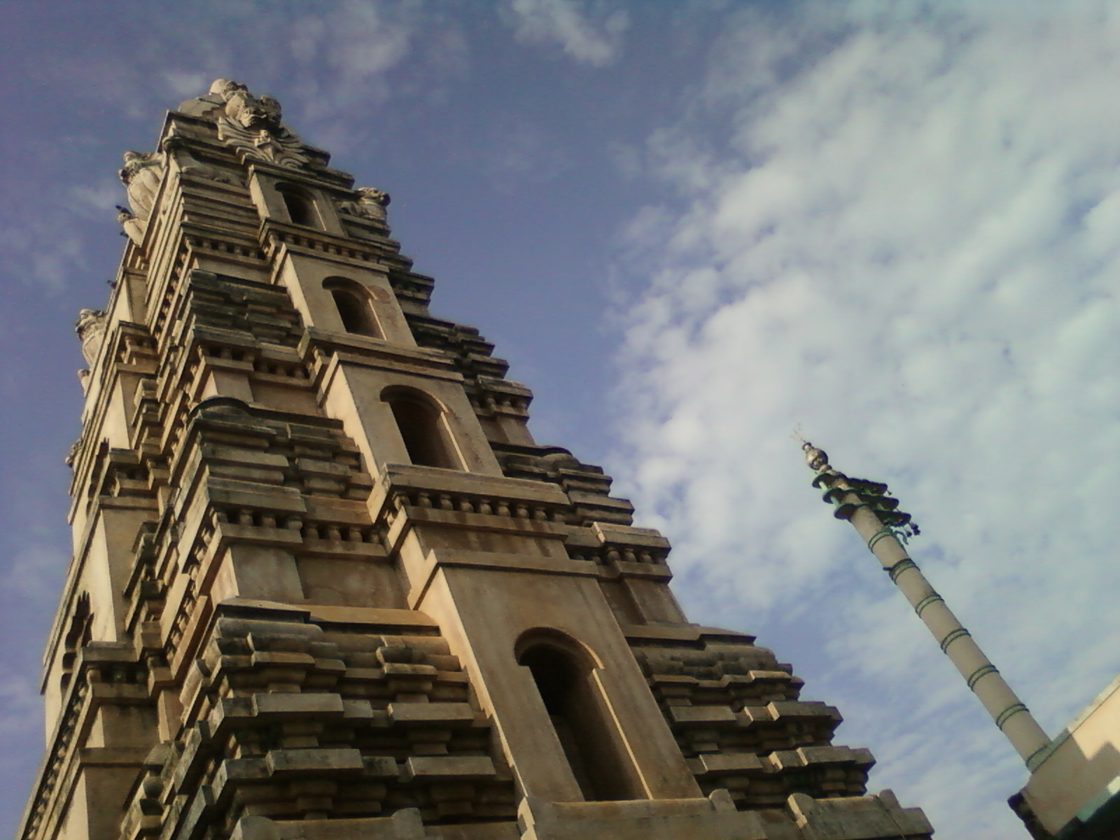 The Main Gopuram of 1100 years old Golingeswara and Subhramanya Swamy temples